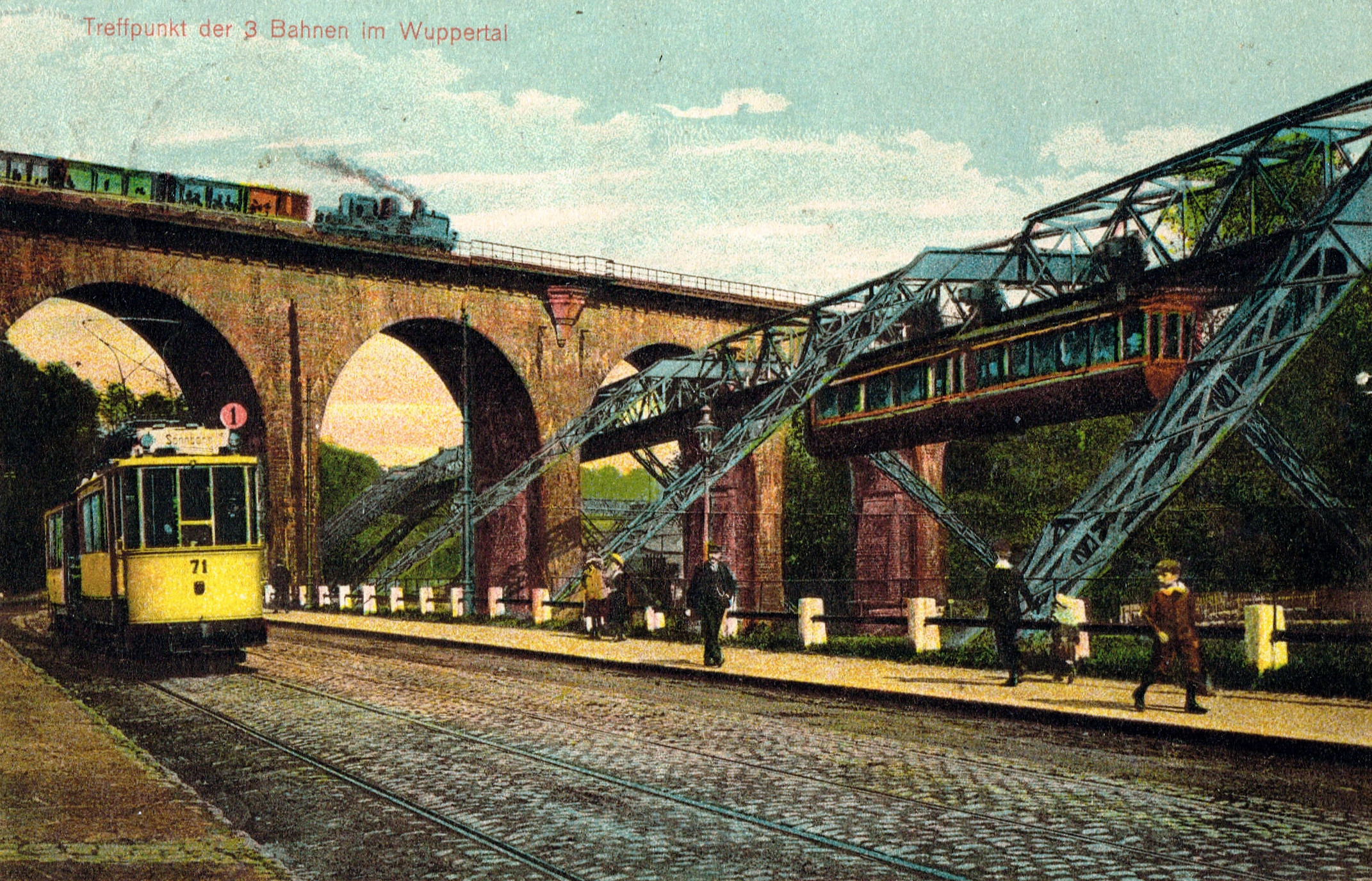 Postcard of Wuppertaler Schwebebahn, in or before 1912